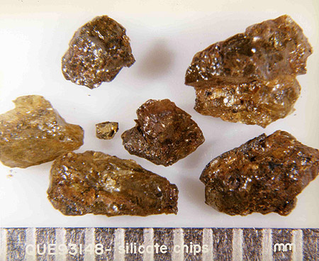 A collection of lodranite meteorites